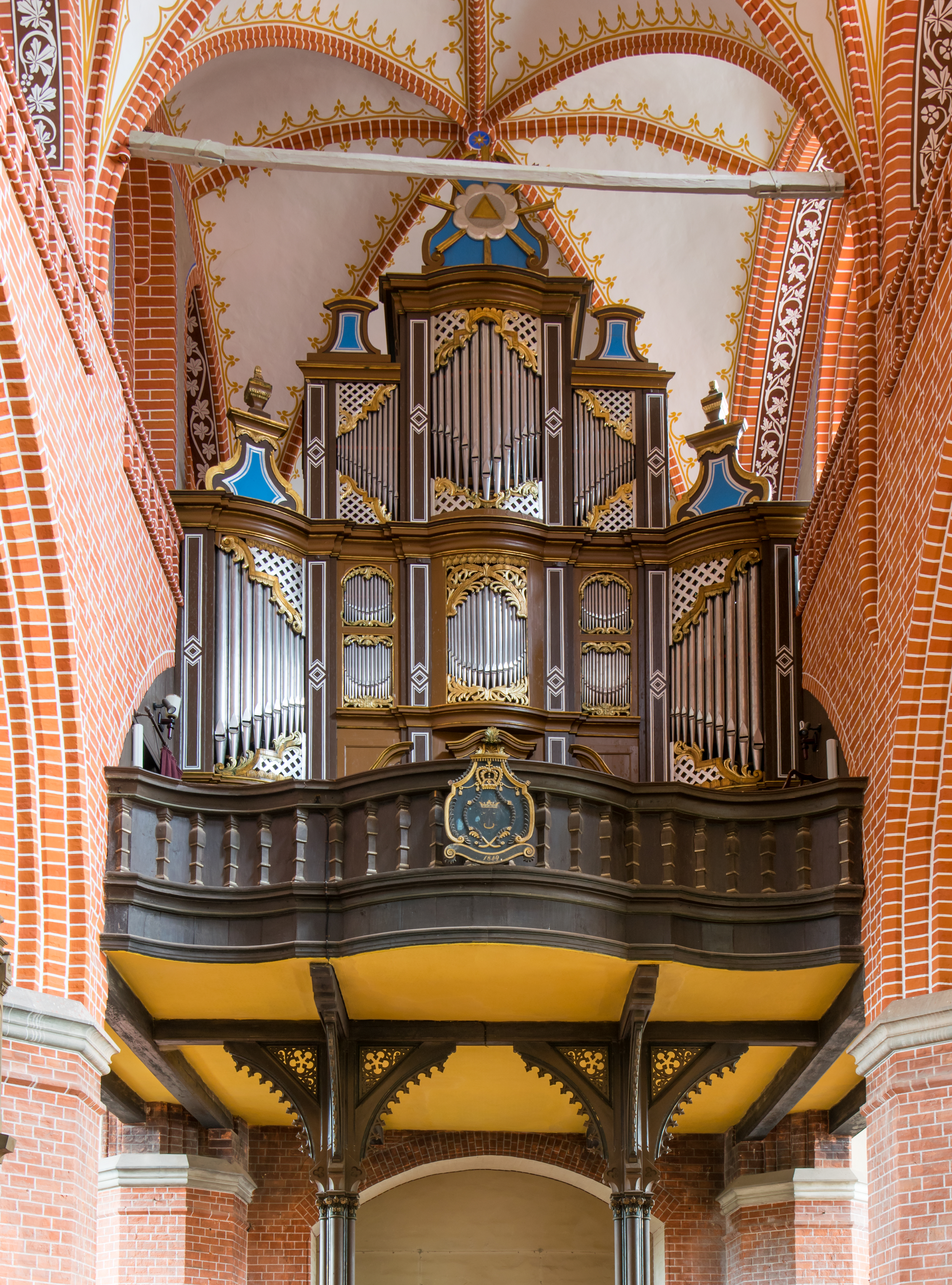 Pipe Organ of St.Peter and Paul in Teterow